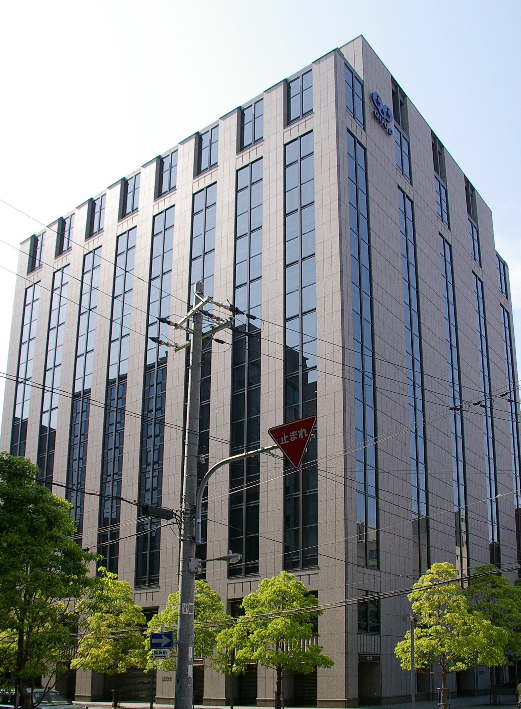 Photograph of Keihanshin Real Estate Yodoyabashi Building, Osaka head office of QUOQ Inc, in Chuo-ku, Osaka, Osaka Prefecture, Japan.